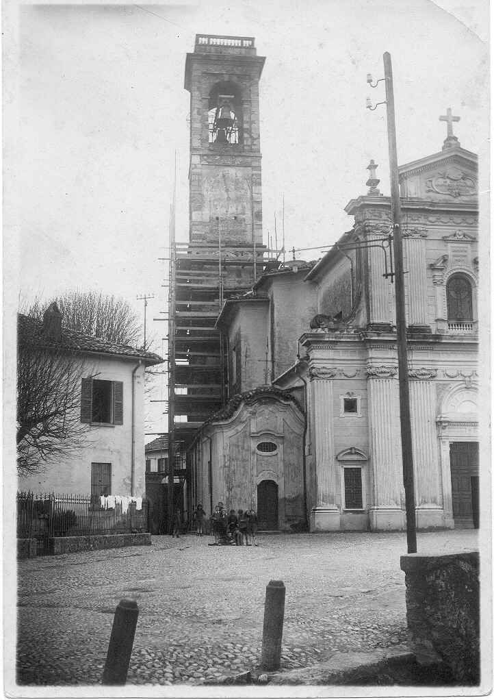 Uggiate (Uggiate Trevano) St. Peter & Paul's church in 1930s.